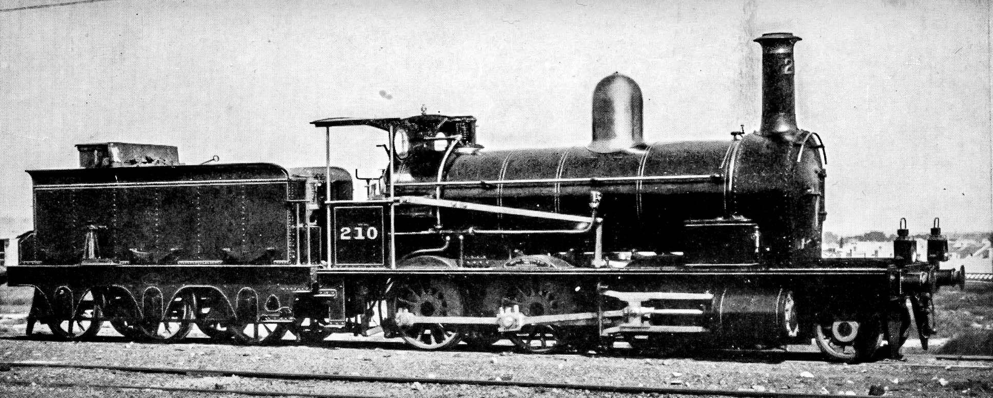 NSWGR Class Z25 Locomotive